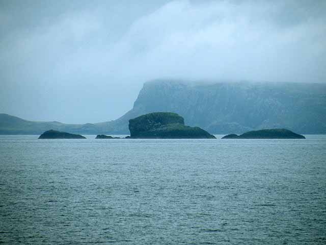 An t-Iasgair rocks Three skerries off the north-west corner of the Isle of Skye. From left to right Sgeir nan Ruideag, An t-Iasgair (the highest islet in the group) and An Dubh Sgeir. The cliffs beyond are on the Isle of Skye behind Duntulm.